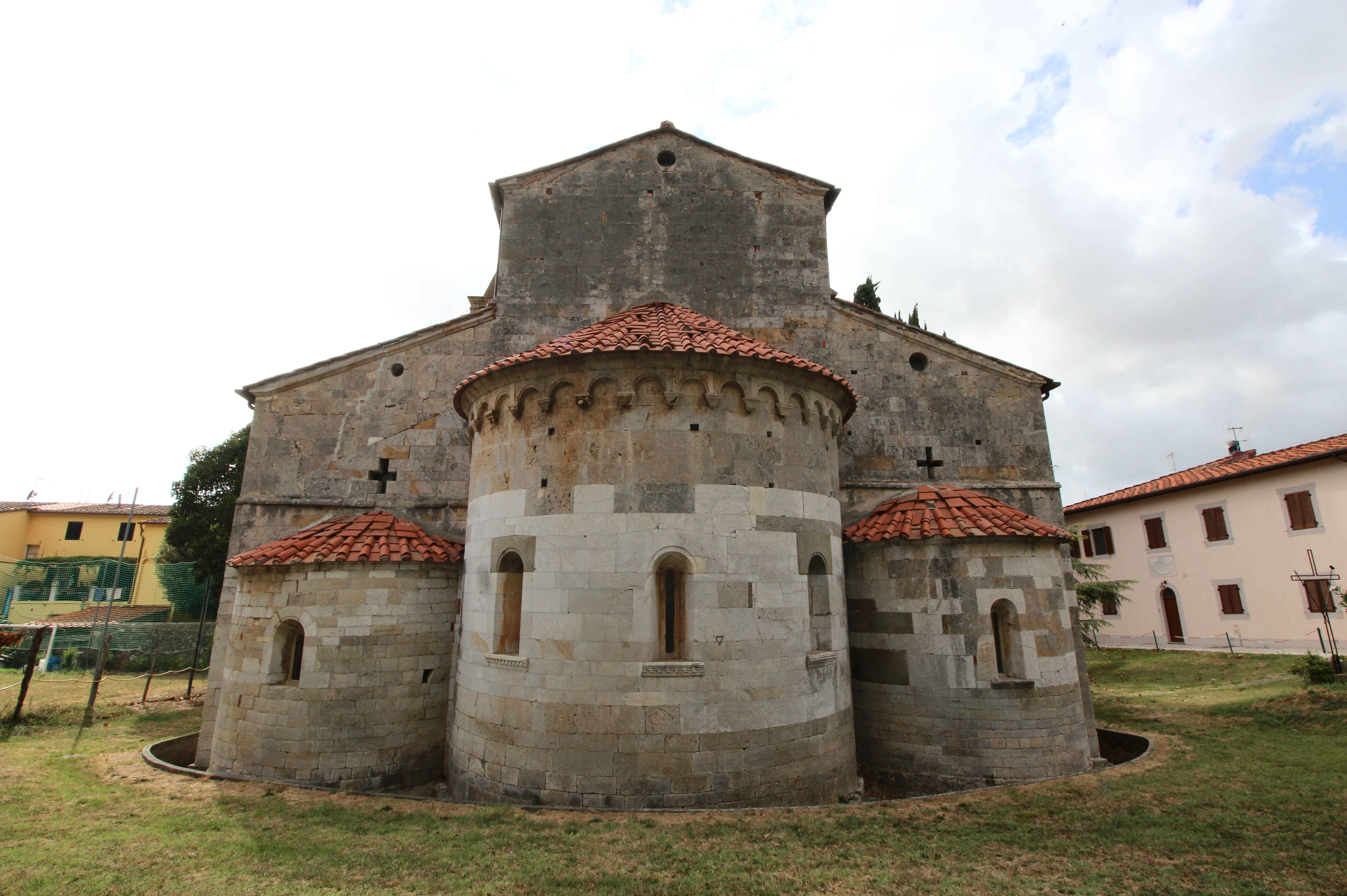 Church San Marco, Rigoli, hamlet of San Giuliano Terme, Province of Pisa, Tuscany, Italy